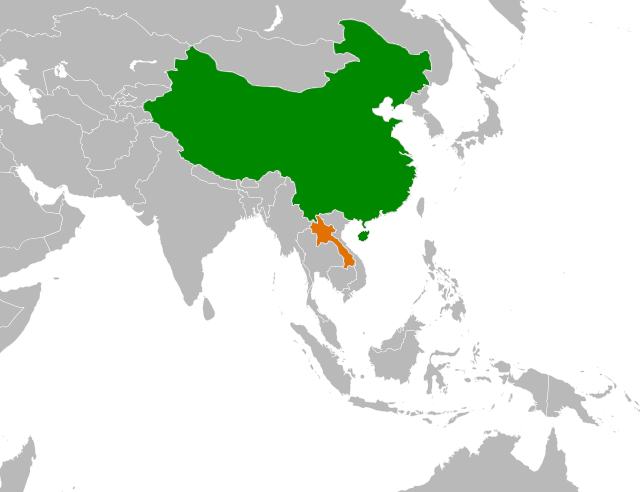 Locator map showing Laos and China